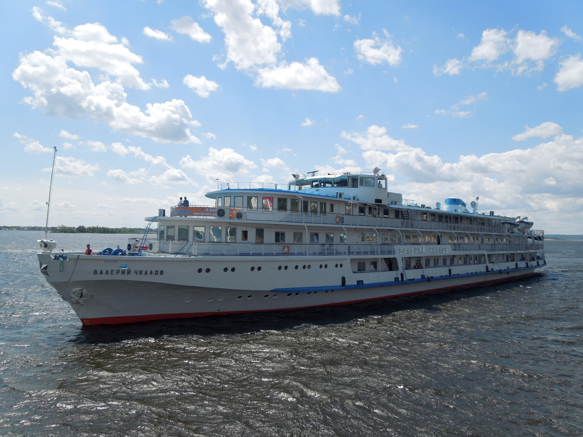 The passenger MS Valery Chkalov of Project 26-37 class. According to the rules of RS (Российский морской регистр судоходства, engl. Russian Maritime Register of Shipping), the international name of that ship on Latin alphabet is a slightly different transliteration Valeriy Chkalov in comparison with worldwide accepted English version of name of Soviet test and record pilot Valery Chkalov, in honor of him the ship was named.